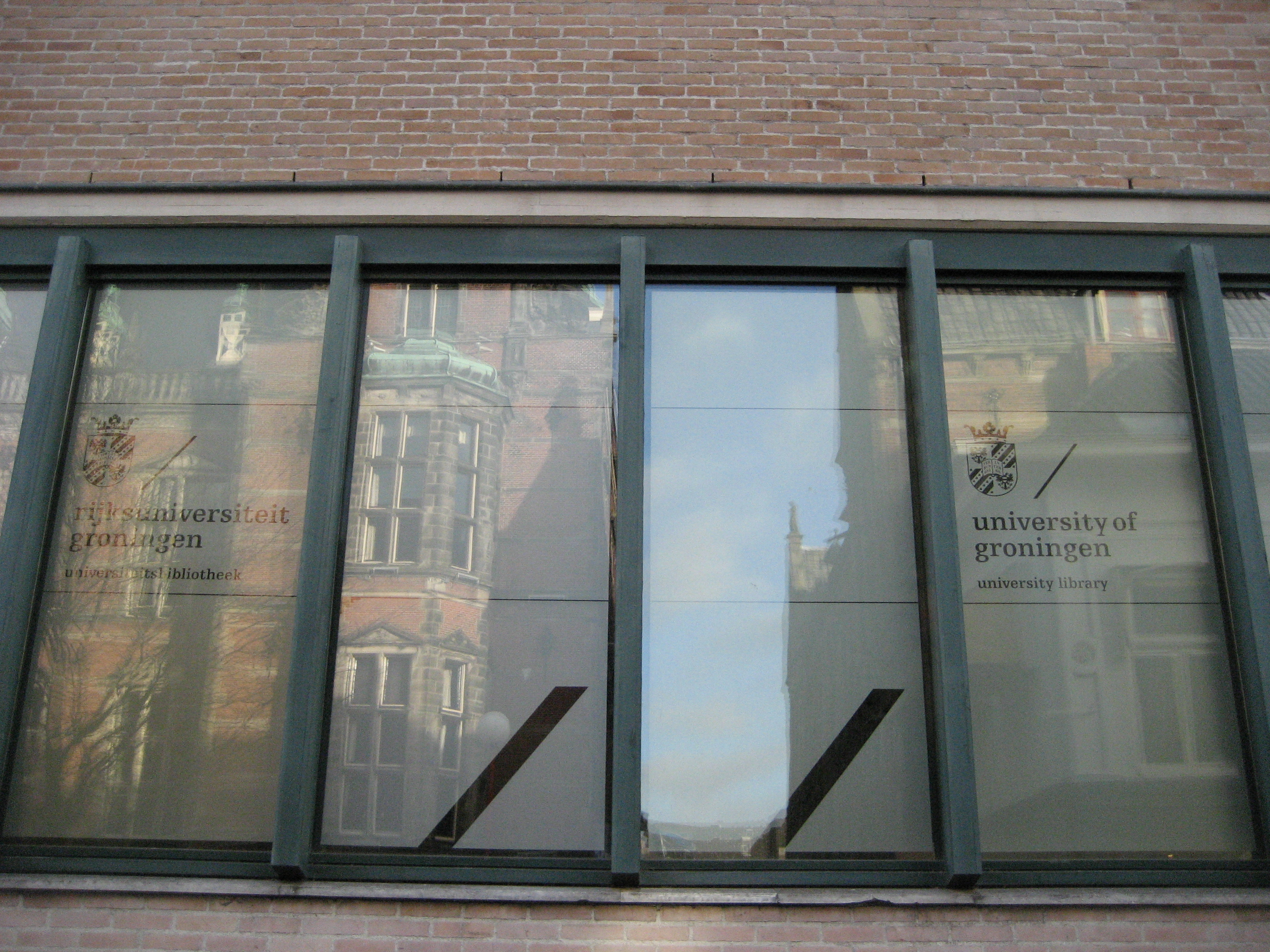 University Library Groningen University, Broerstraat 4, 9712 CP Groningen (the Netherlands). In the window: reflections of the Academy Building